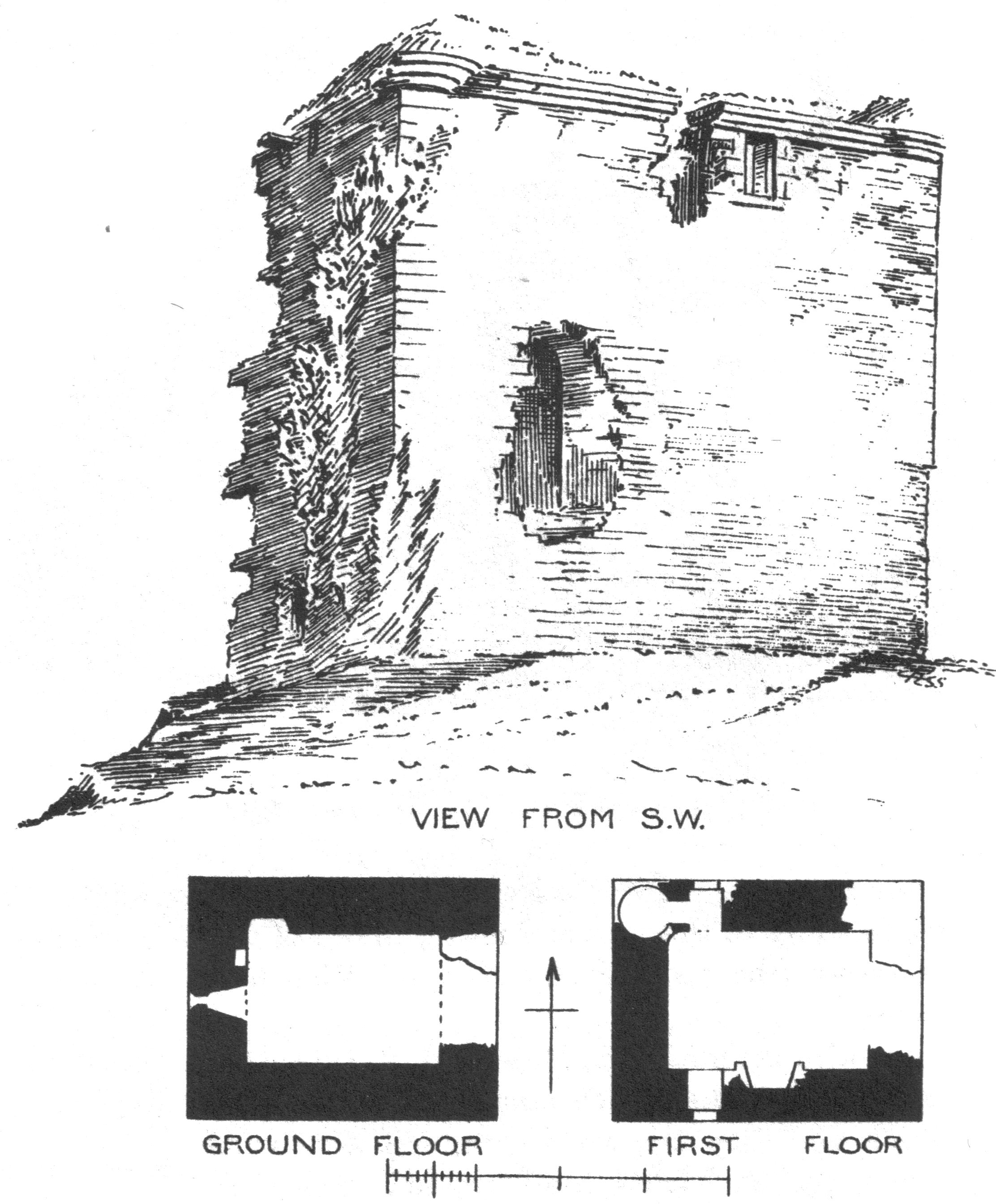 Auchenharvie Castle, Torranyard, Kilwinning, North Ayrshire, Scotland. Ruined Cunninghame Clan castle.